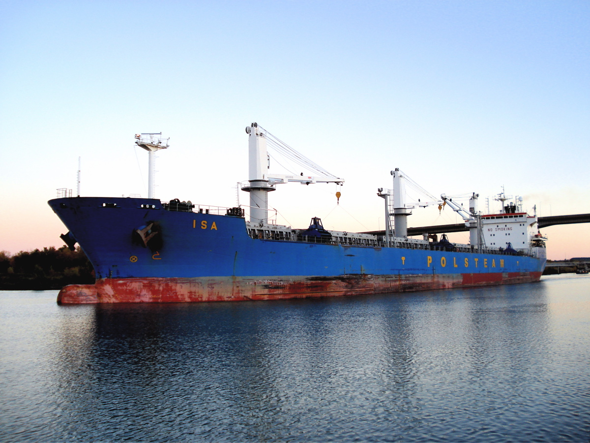 Isa of Polsteam (Polska Żegluga Morska) transiting the Welland Canal, just north of St. Catharines Skyway bridge. Photo taken on October 7, 2006.